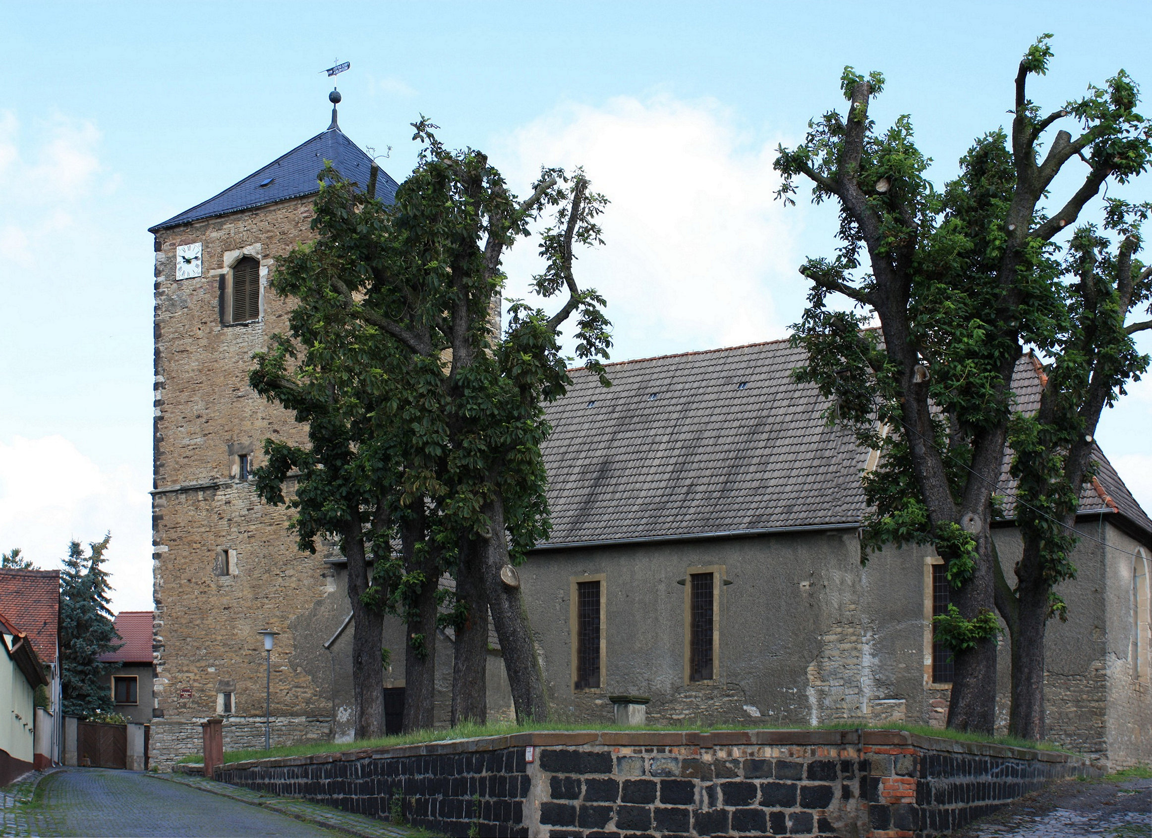 Helbra - the Lutheran church St.Stephanus